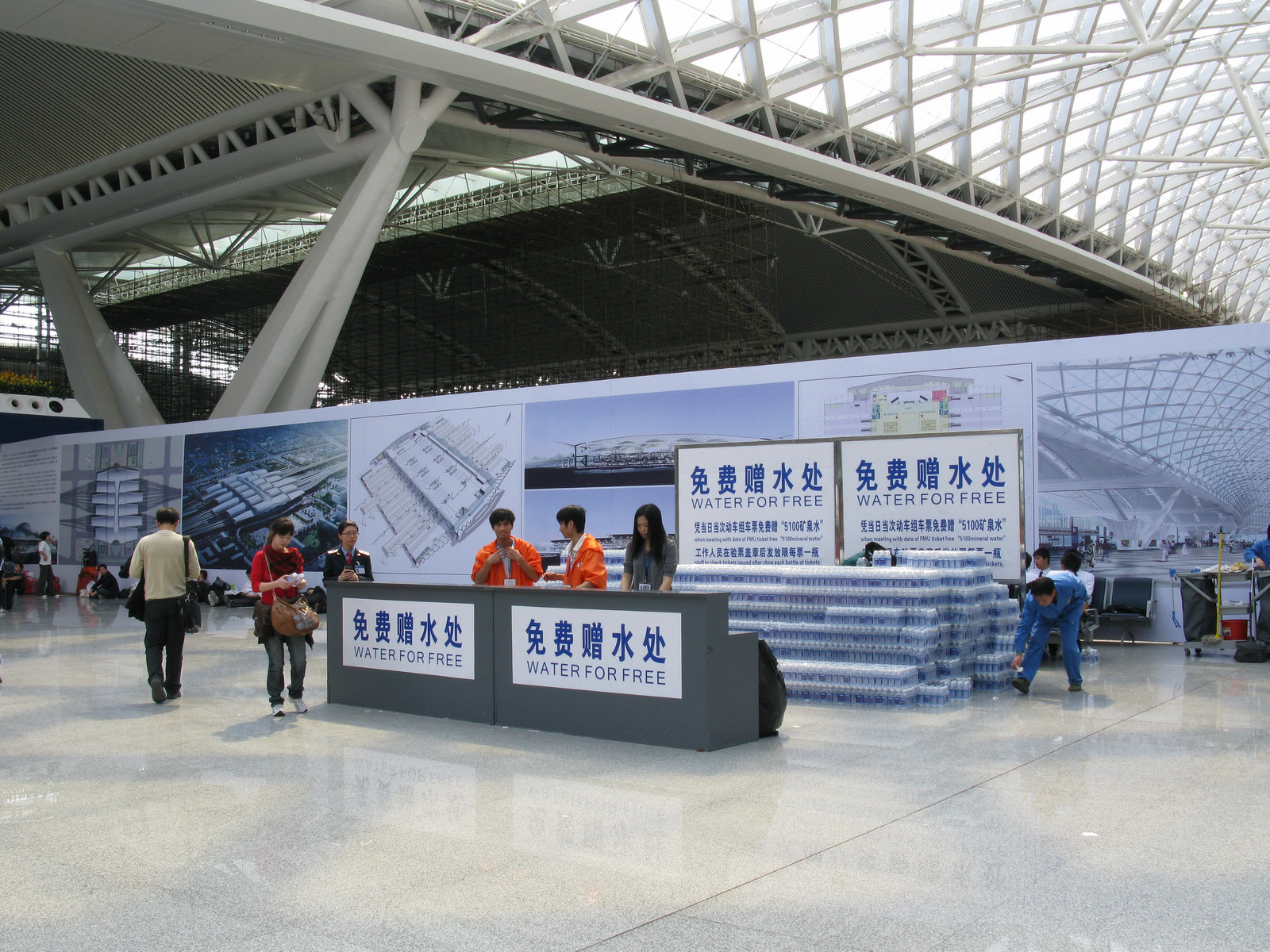 "Water for free" at 3/F East Concourse of Guangzhou South Railway Station